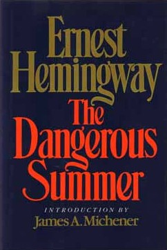 First-edition cover of The Dangerous Summer